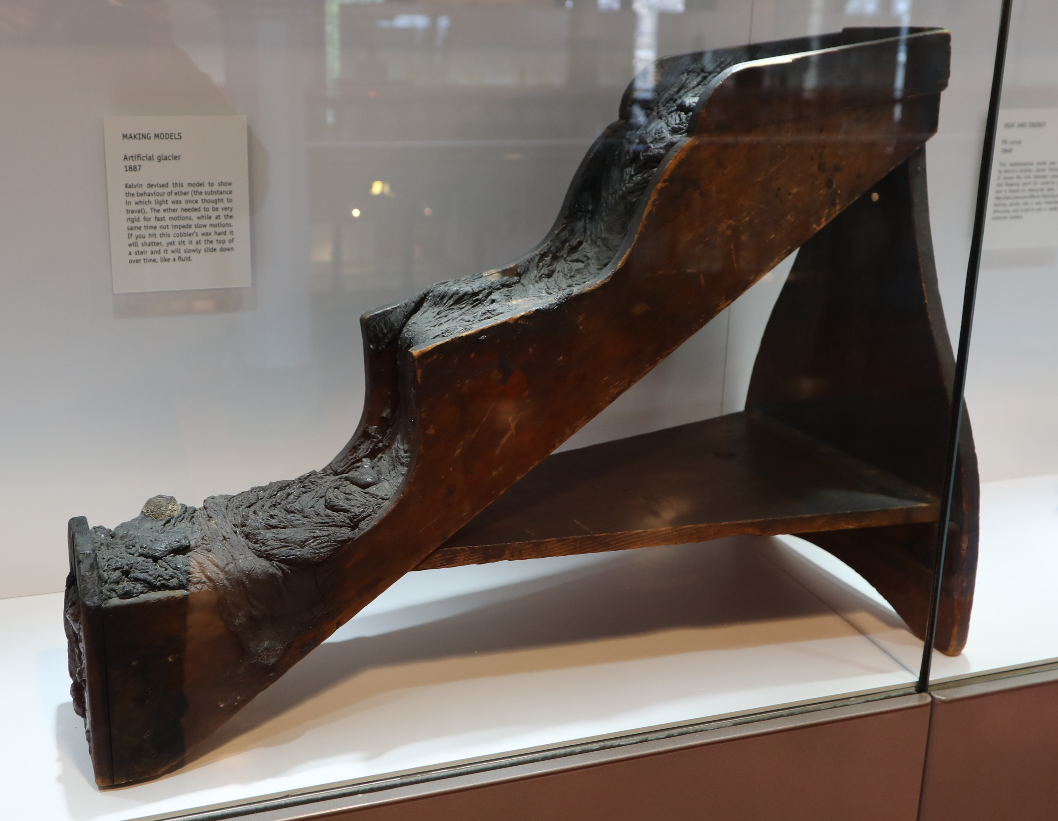 Photo of one of Kelvin's pitch glacier models